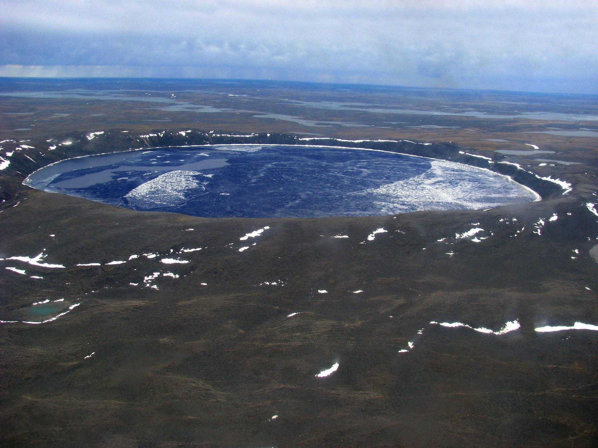 Pingualuit Crater from an airplane